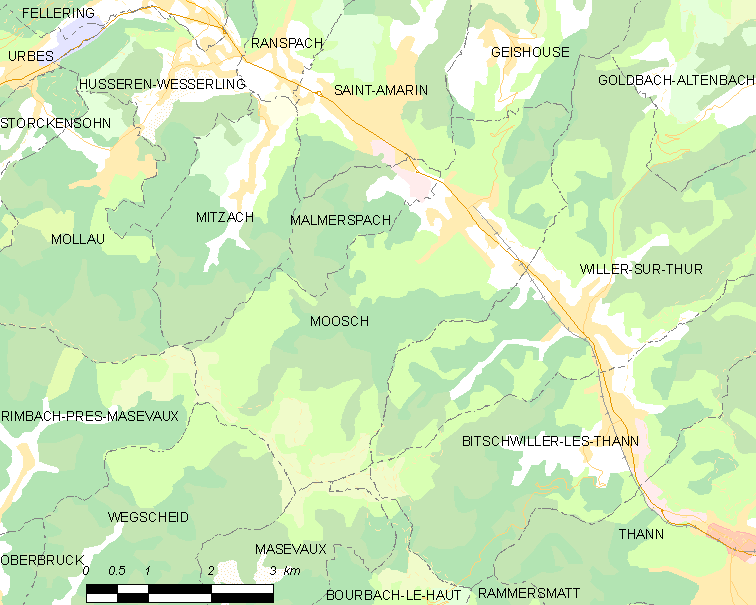 Map of French municipality